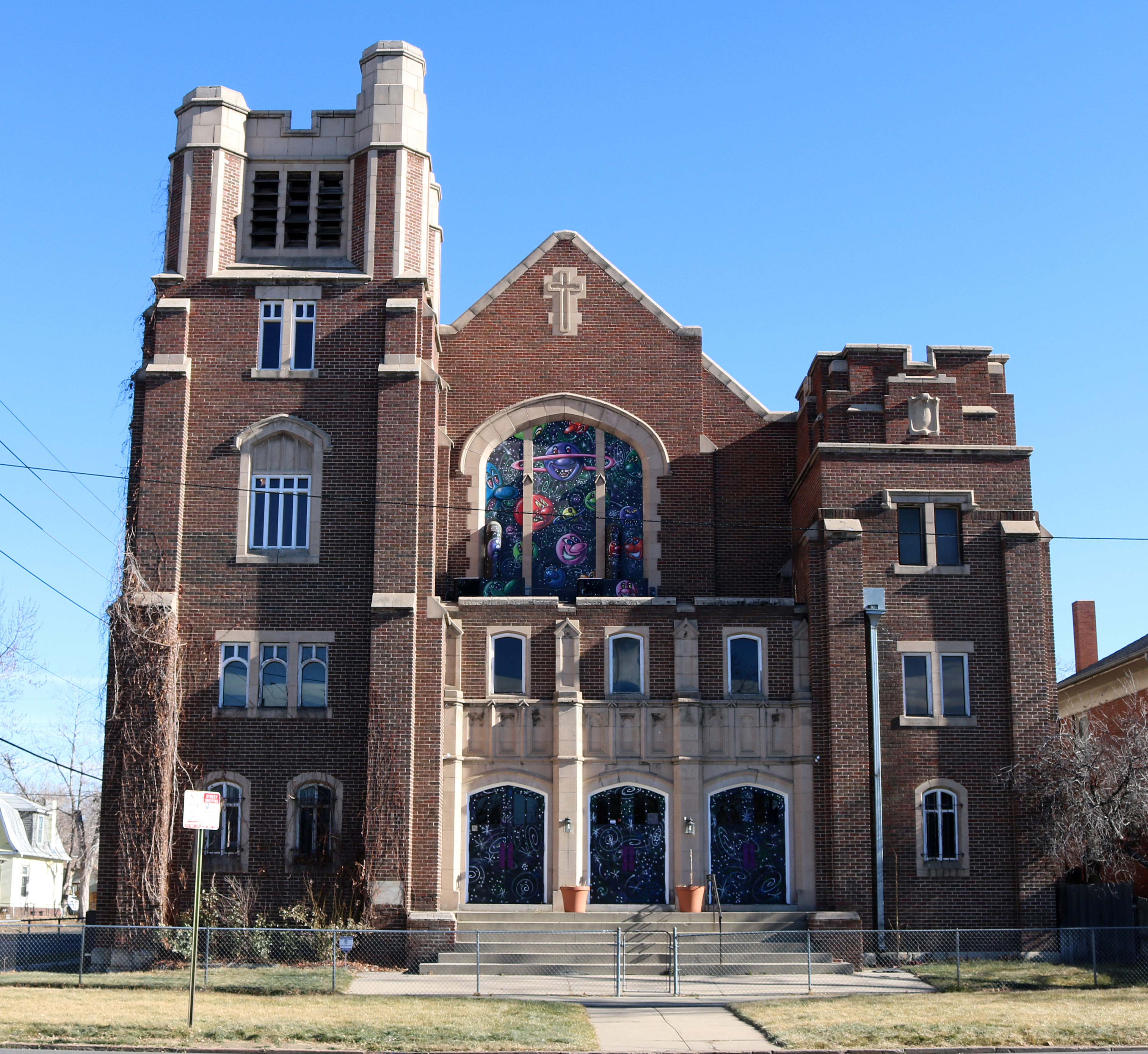 The International Church of Cannabis, located at 400 South Logan Street in Denver, Colorado.